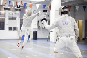 Manhattan Fncing Center: Saber Fencers practicing.